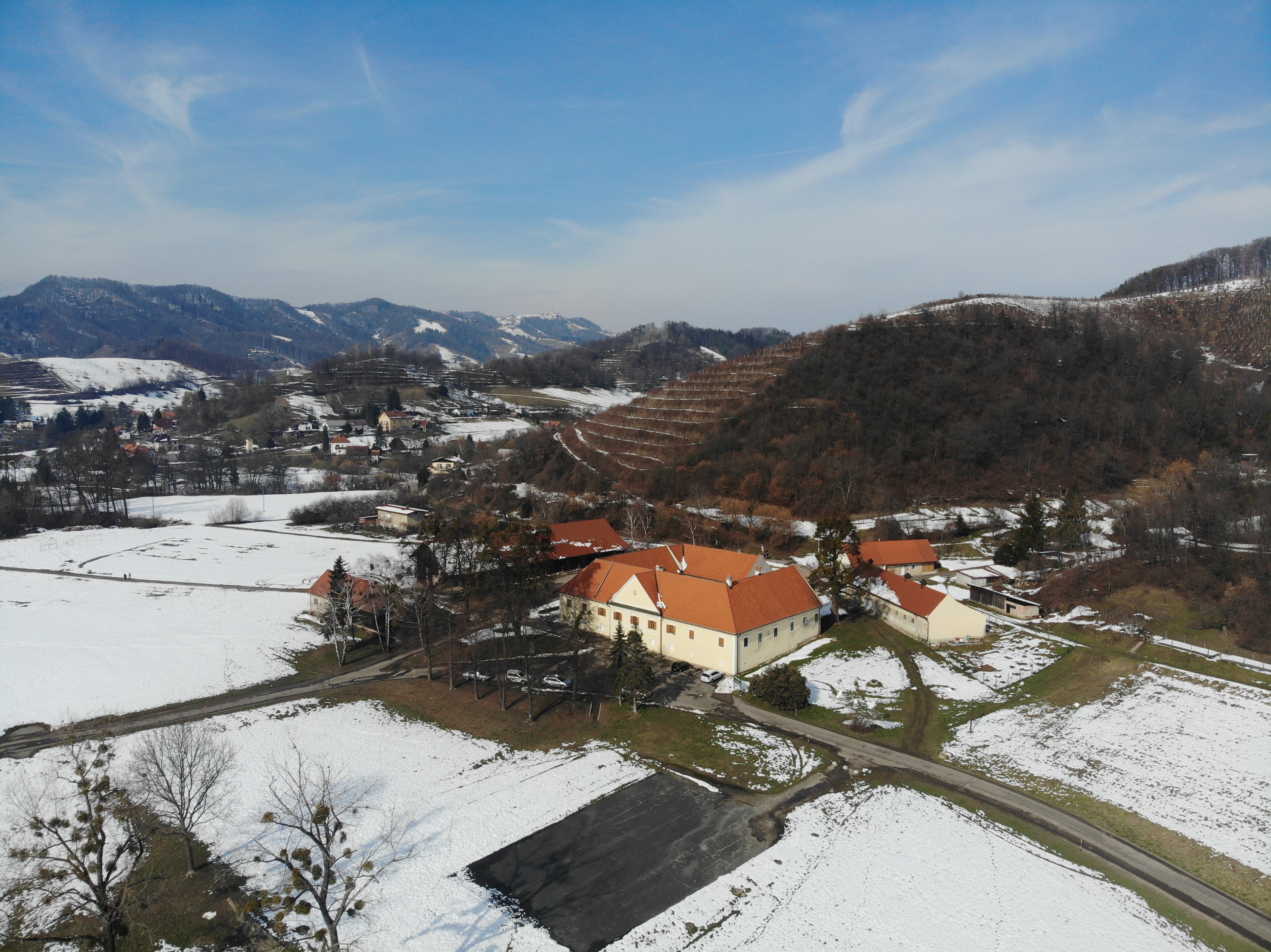 Fotografija Račjega dvora iz zraka, posneta 17. 2. 2016